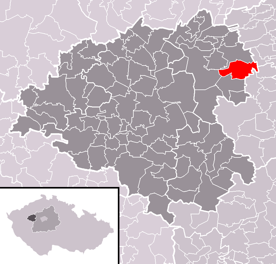 Location of Mšecké Žehrovice municipality within Rakovník District and (identical) administrative area of Rakovník as a Municipality with Extended Competence.